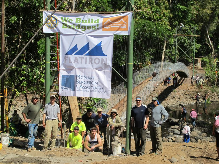 Flatiron Construction crew celebrates completion of footbridge in El Salvador